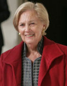 Mrs. Laura Bush walks with Alma Adamkus (Adamkienė), the First Lady of Lithuania, along the colonnade in the Rose Garden during a visit to the White House Monday, Feb. 12, 2007.